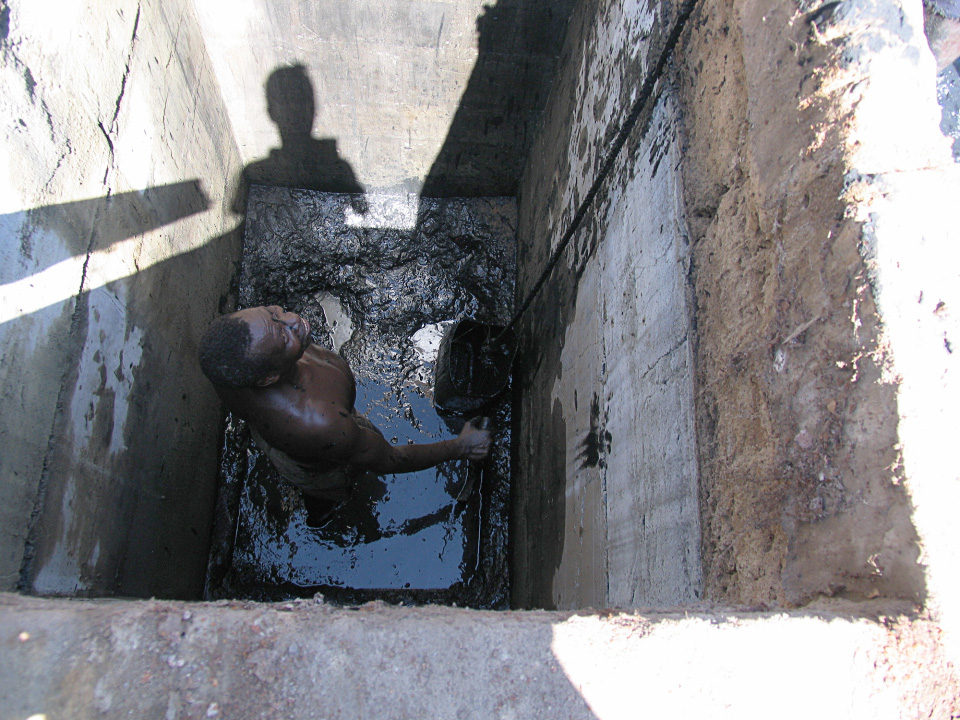 A "frogman" in Dar Es Salaam, usual surname of the people emptying latrine pits.